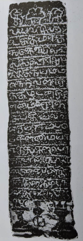 Perilamaiyar inscriptions of Padaviya - 13th century AD